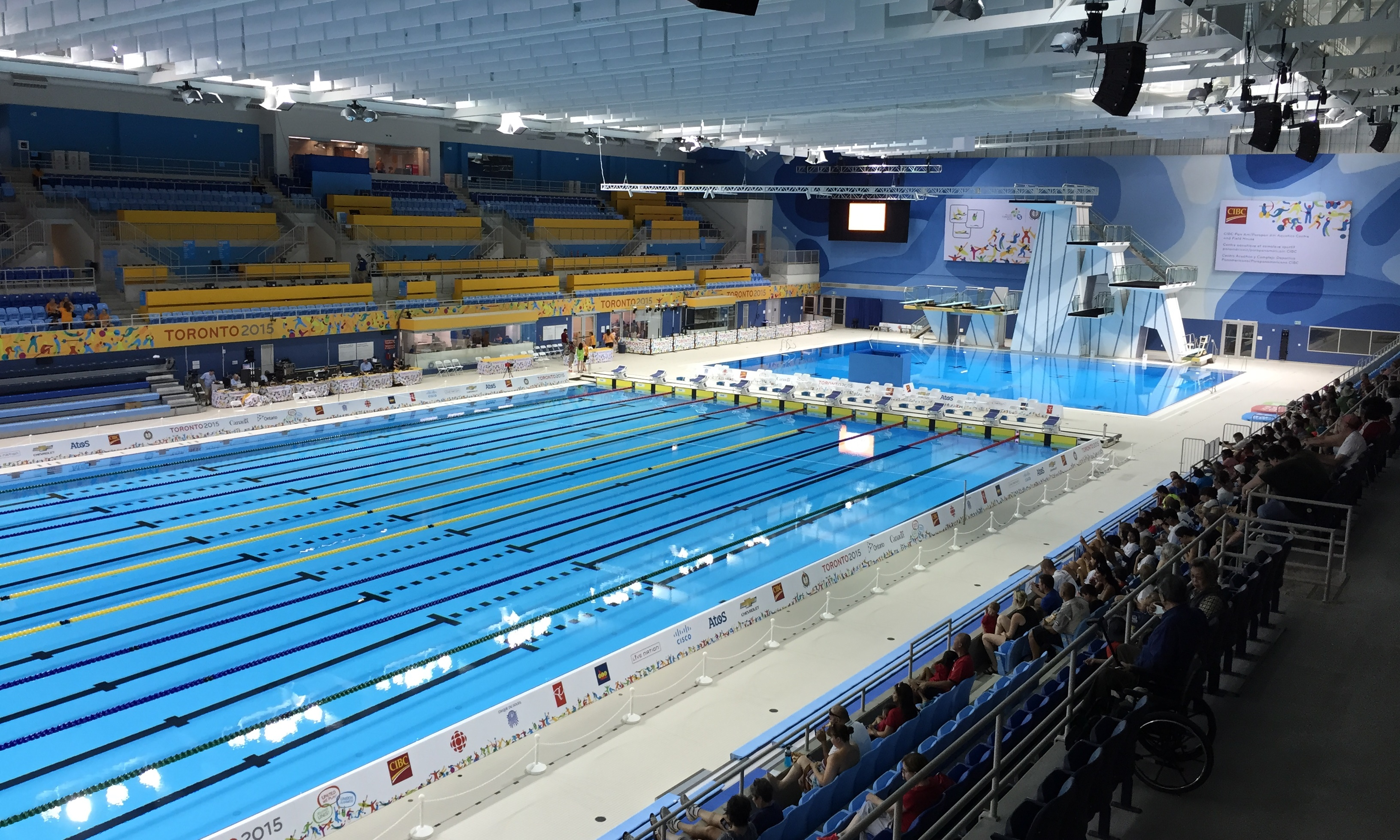 Toronto Pan Am Sports Centre main pool during the Toronto 2015 Pan American Games